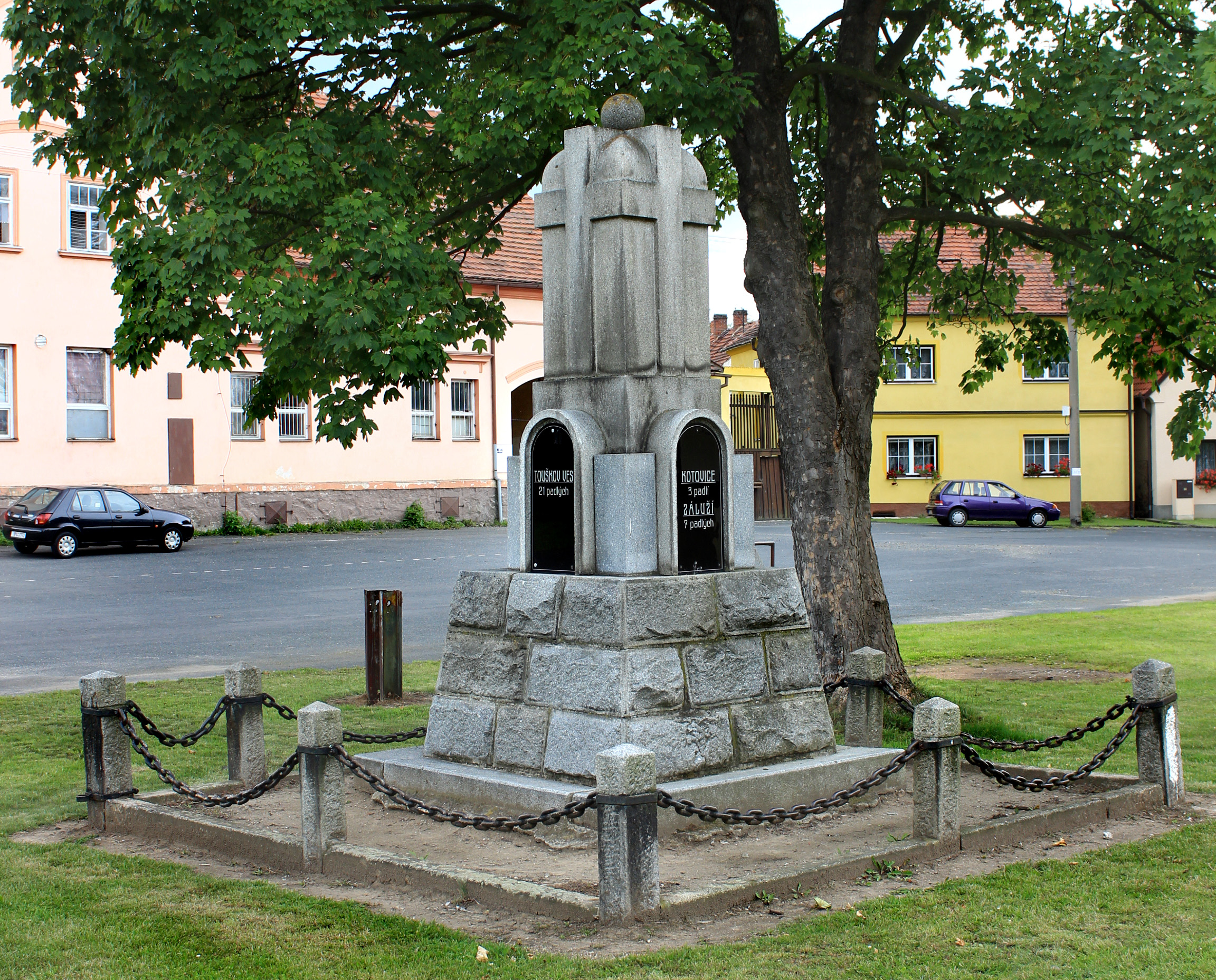 World war I memorial in Ves Touškov village, Czech Republic.